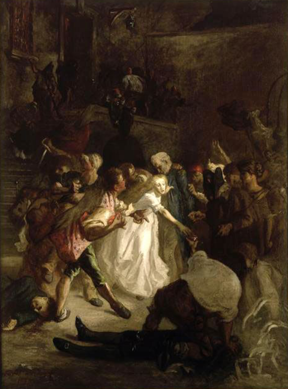 "Mademoiselle de Sombreuil buvant un verre de sang pour sauver la vie de son père", by Pierre Puvis de Chavannes.